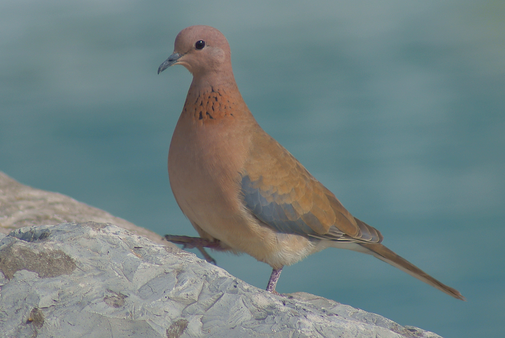 Laughing Dove in Abu Dhabi.